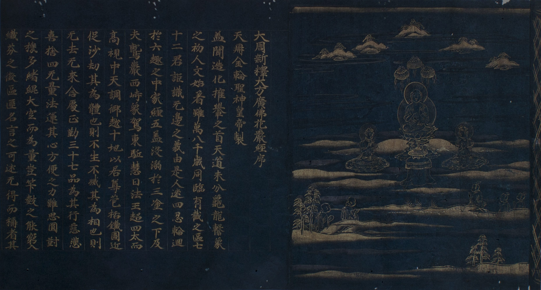 late 12thC, Todaiji, Nara, Japan